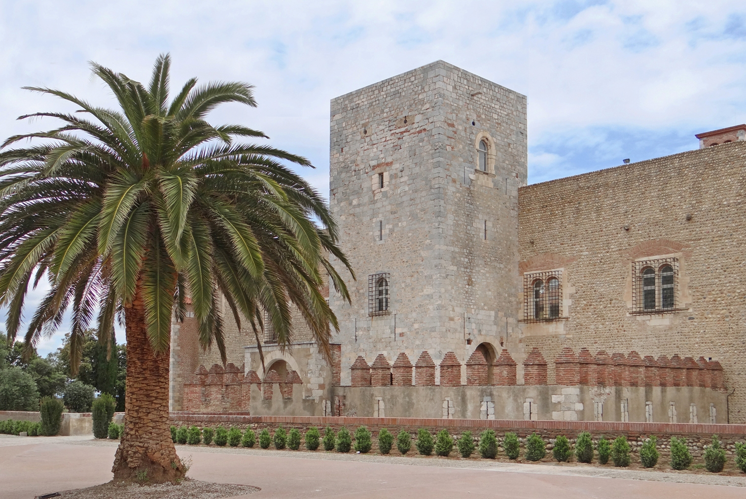 La façade du palais des Rois de Majorque avec au premier plan, la Tour de l'Hommage Au pied de la Tour, une barbacane avec son mur crénelé protège l'entrée du Palais. Le palais des rois de Majorque (Mallorca) est un palais-forteresse de style gothique. Construit dans le dernier quart du XIIIème siècle par le roi Jaume II qui s'installe à Perpignan en 1276, sa construction s'achève à l'orée du XIVème siècle. Entouré de jardins, il s'élève sur une colline au sud de la ville de Perpignen, le "puig del rey". Dans le sillage du souverain, les premiers maîtres d'oeuvre sont Ramon Pau et surtout Pons Descoyl, très actif à Perpignan et dans les îles Baléares. Le plan du palais, très fonctionnel, forme pratiquement un carré de 60 mètres de côté. Il s'organise autour de trois cours dominées par la chapelle en position centrale qui marque la prépondérance du spirituel sur le temporel.... Site du Palais sur le site du conseil général 66